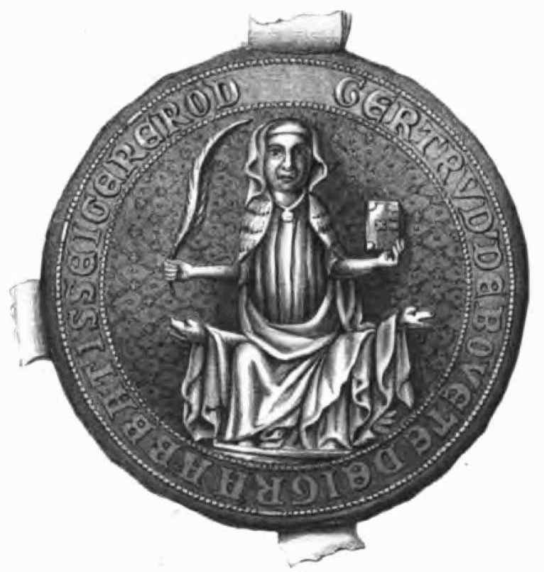 Seal of the Abbess of Gernrode Gertrud II. von Boventhen